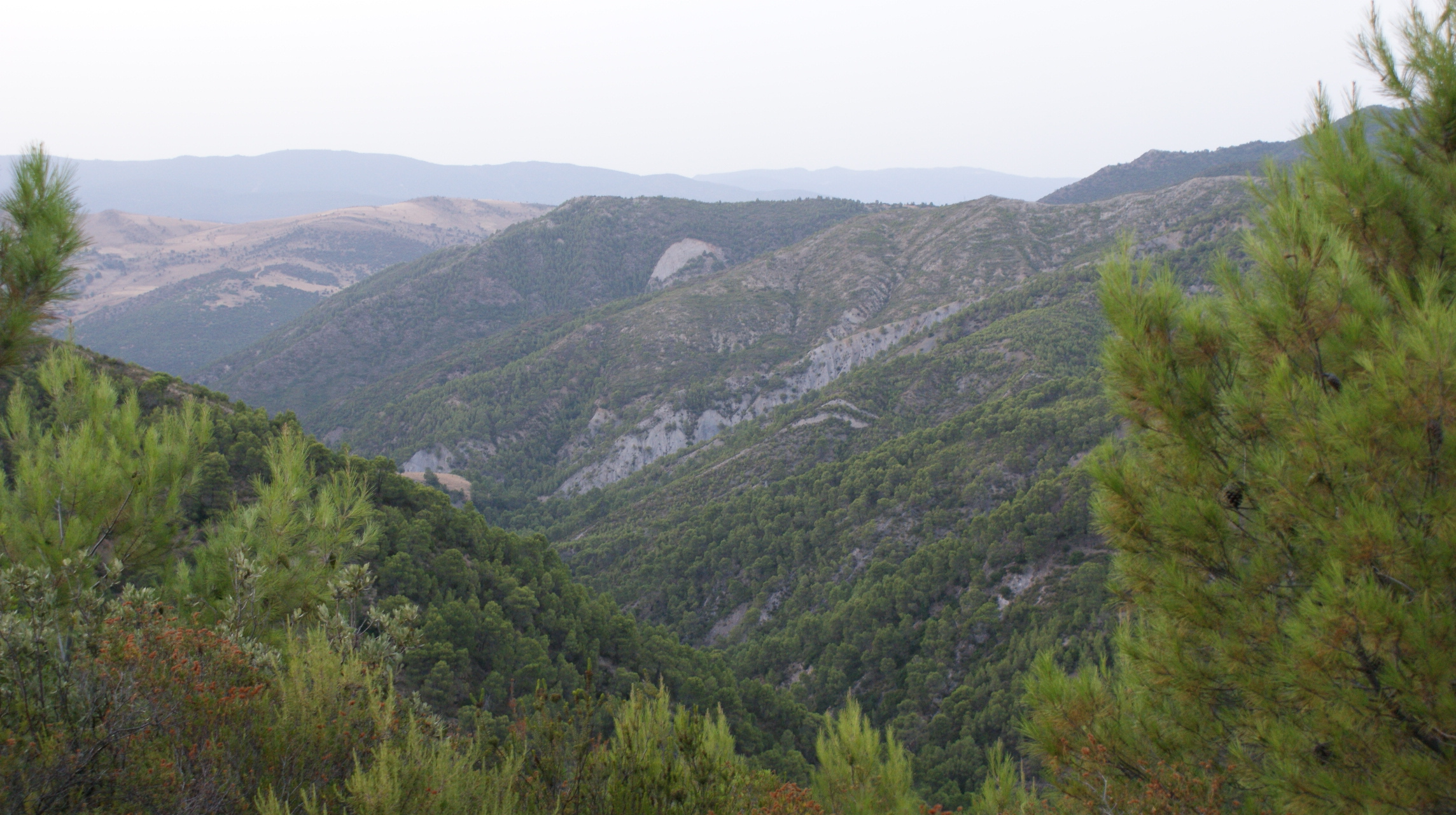 Landscape from ouled Moumen Algeria